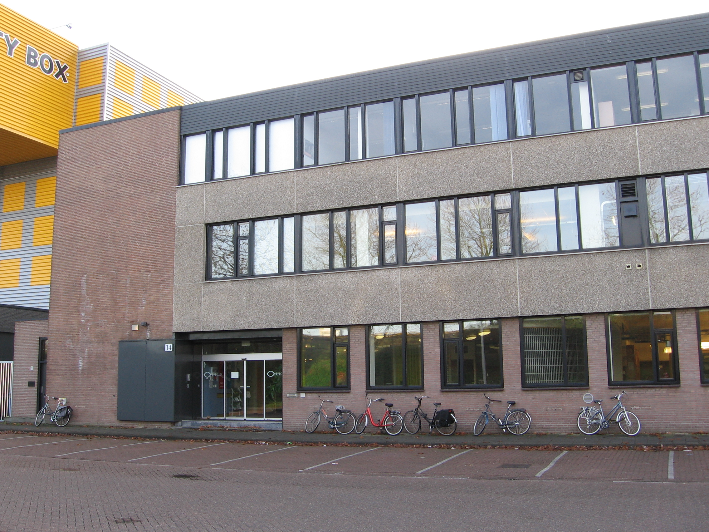 Library of EYE Film Institute Netherlands, Overamstel, Amsterdam